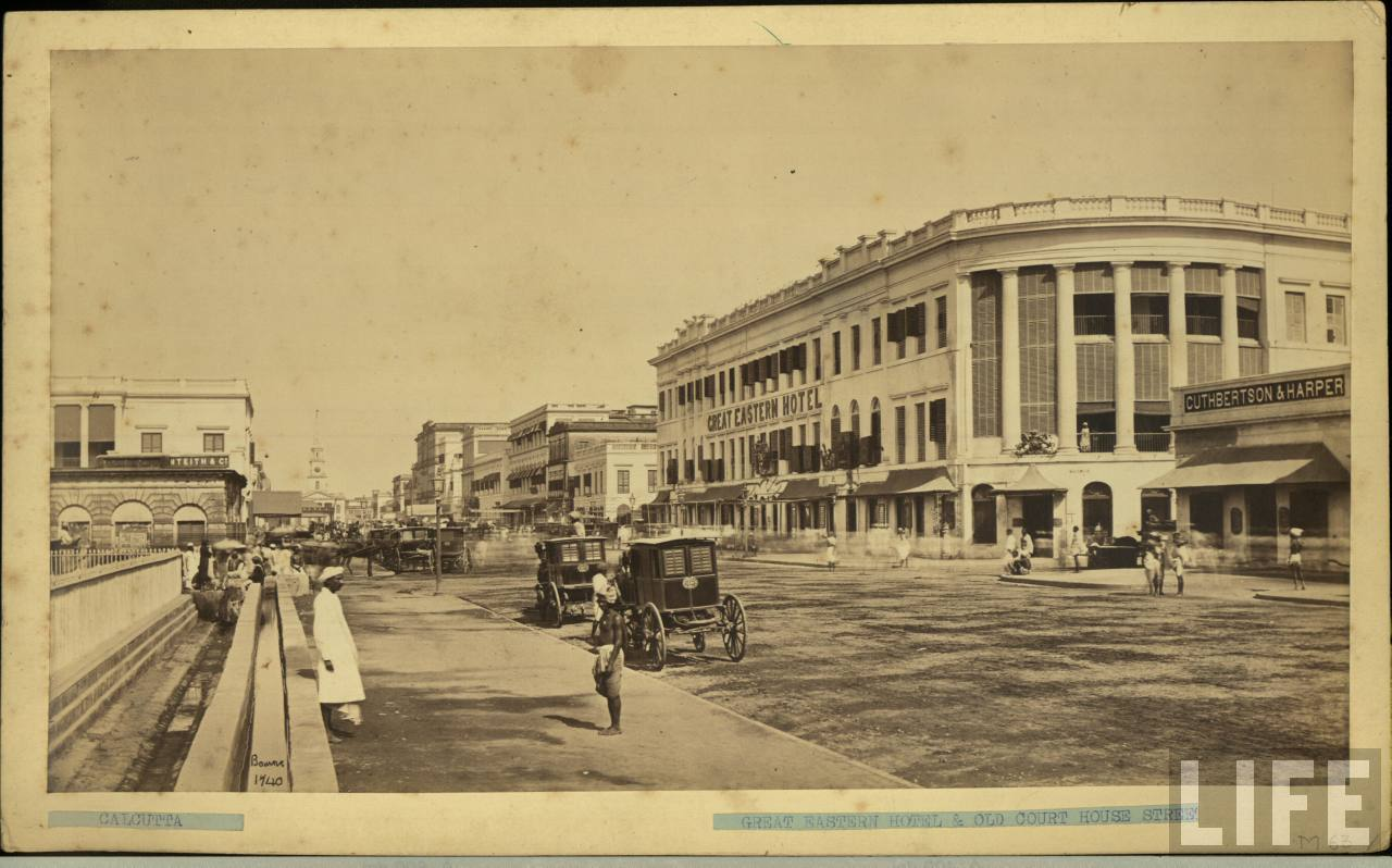 Great Eastern Hotel in Old Court House Street, Calcutta